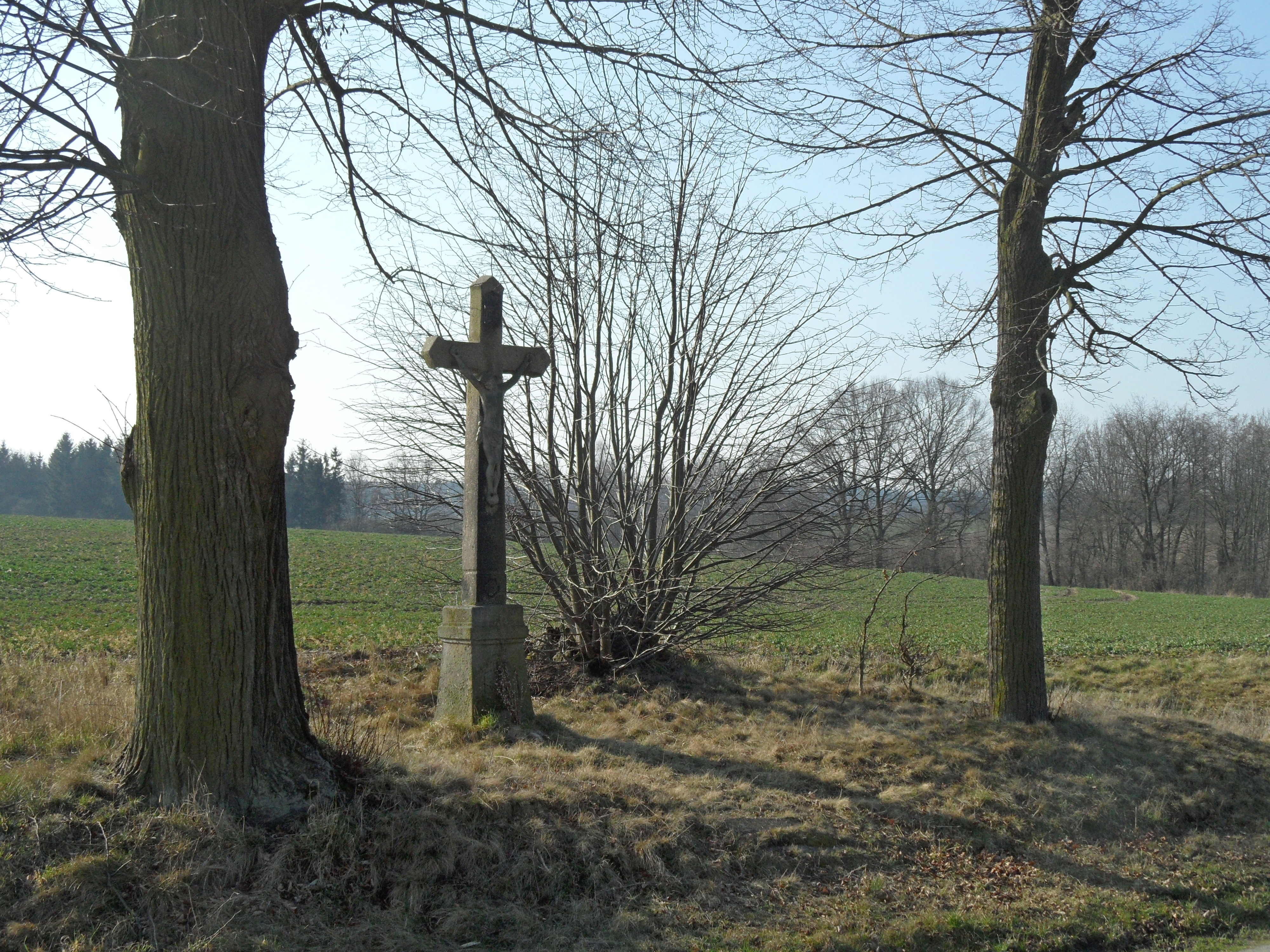 Římovice I. Crucifix near Road from Golčův Jeníkov. Havlíčkův Brod District, the Czech Republic.